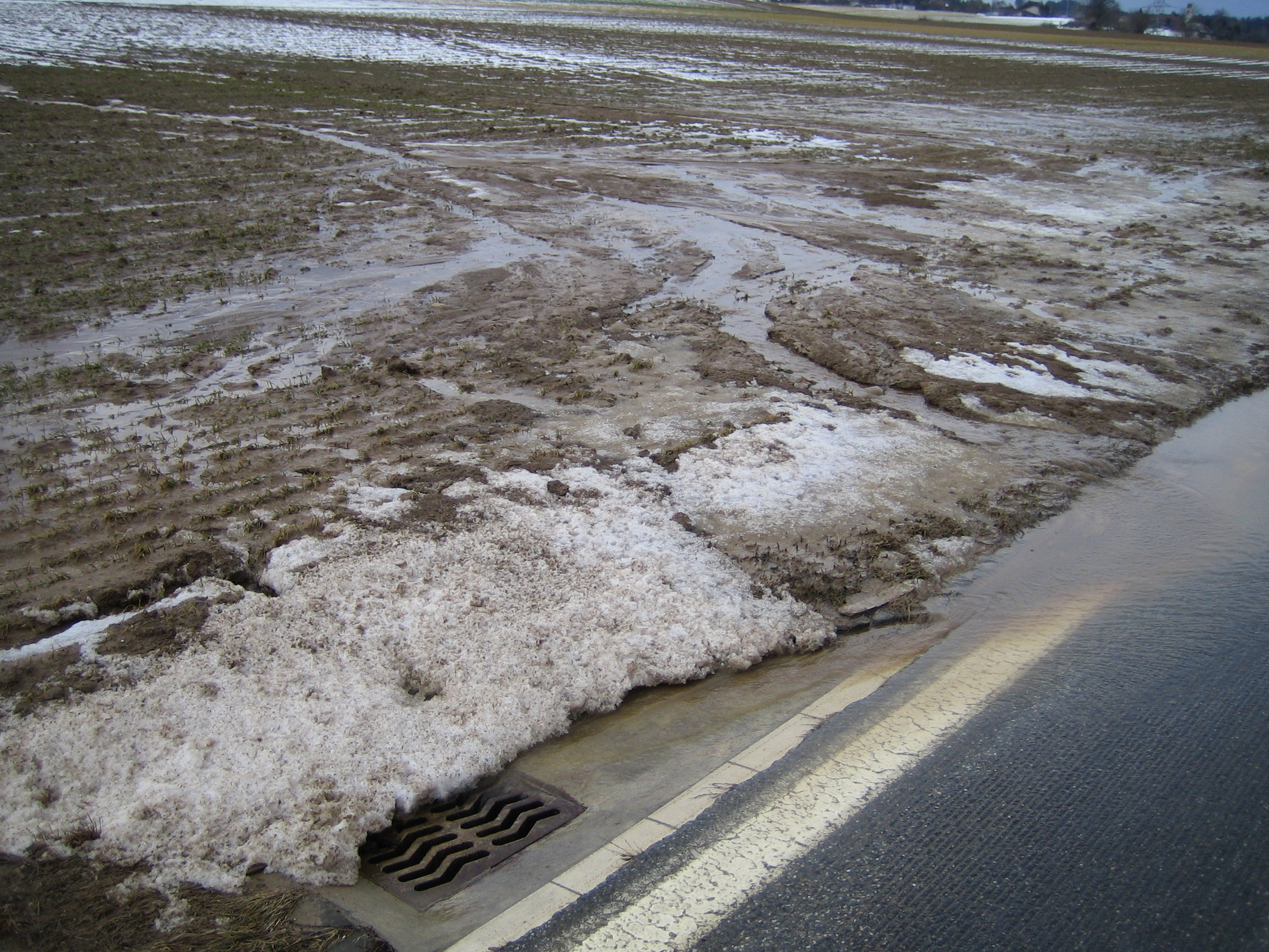 Erosion caused by snow melting, canton of Bern, Switzerland